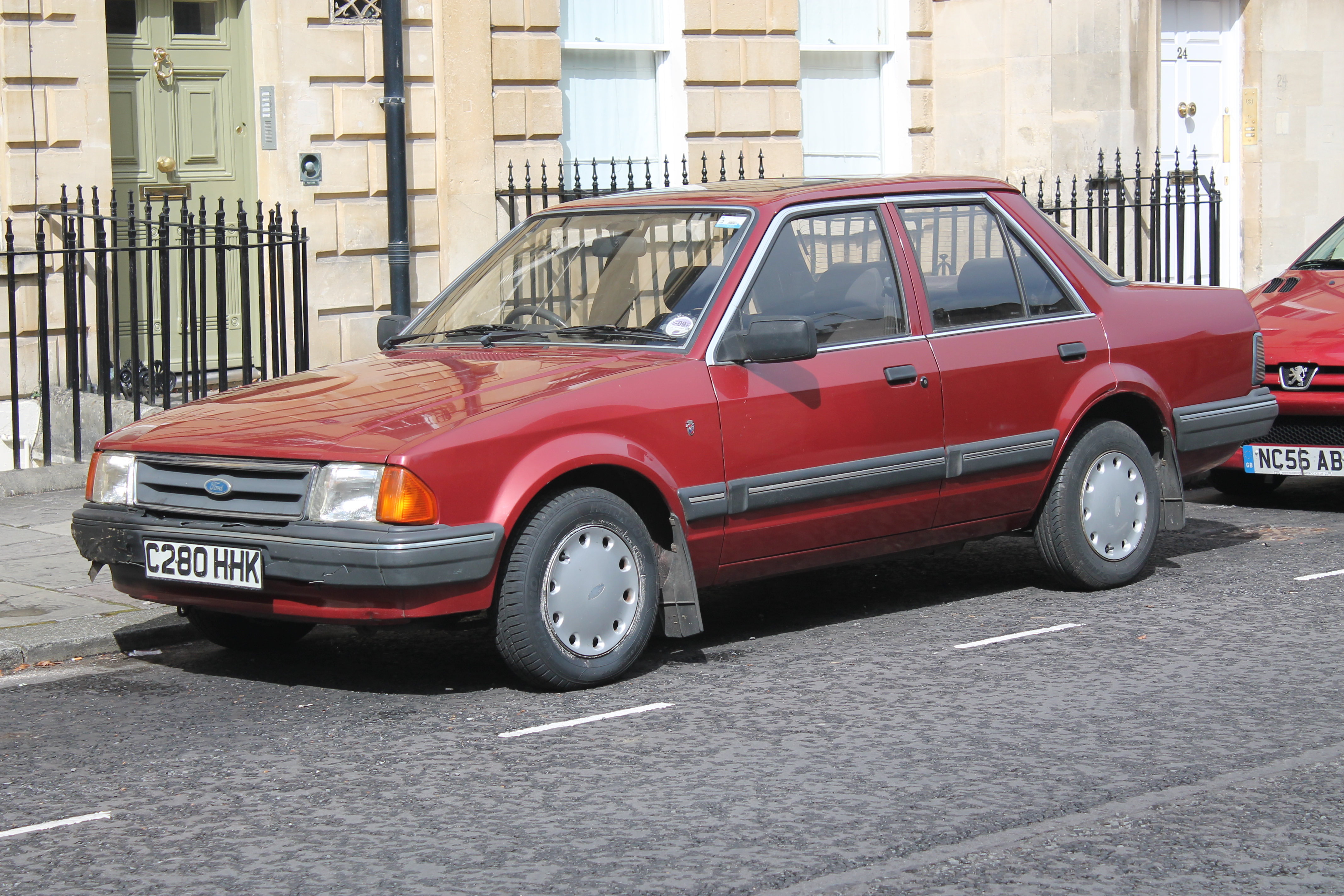 Pleased to spot this rather neat and tidy looking vehicle parked on this wealthy street. This car's licence is due to expire, but I expect it'll be renewed. Used to be common, but now not so much... I like these though. Just 23 of these Ghia Autos left. 6 are from 1985. Chelmsford registration